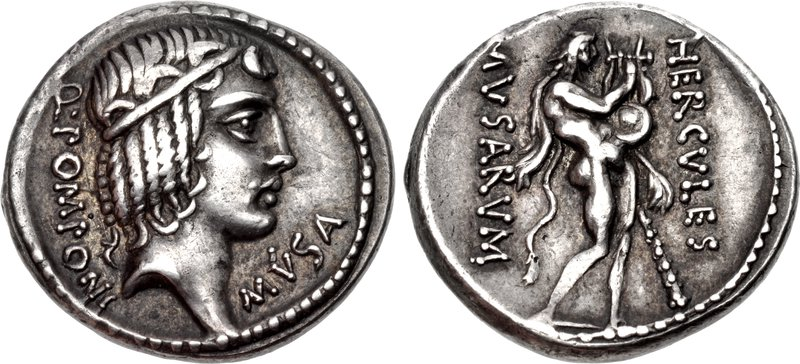 Q. Pomponius Musa. 56 BC. AR Denarius (19mm, 3.95 g, 6h). Rome mint. Diademed head of Apollo right, wearing hair in ringlets; Q • POMPONI downwards to left, MVSA upwards to right / Hercules Musagetes, Conductor of the Muses, standing right, wearing lion skin on shoulders, playing lyre; club to right; HERCVLES downwards to right, MVSARVM downward to left.